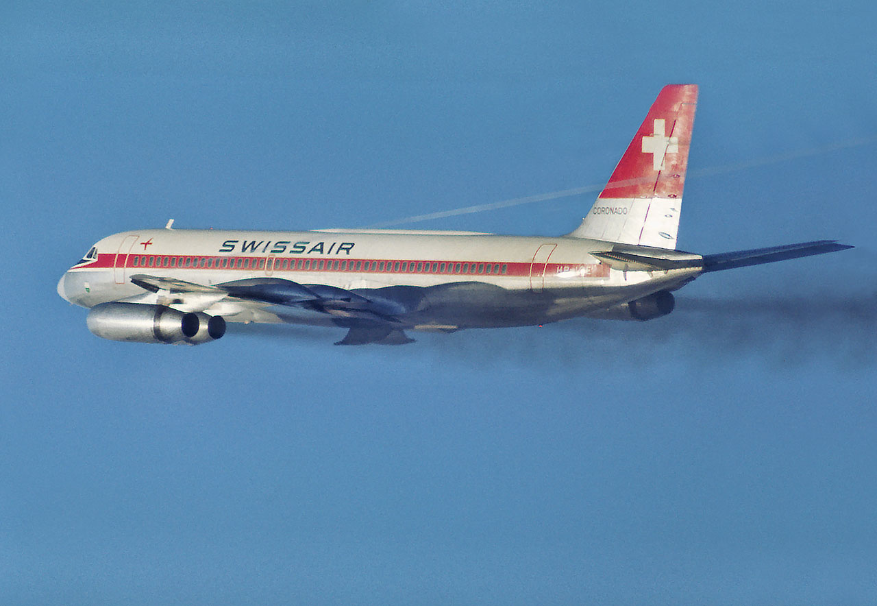 Swissair Convair 990A Coronado taking off from Arlanda Airport. Coming up in the air, the wheel doors is about to close, and a condensation trail, can be seen from the wingtip, typical for a CV-990